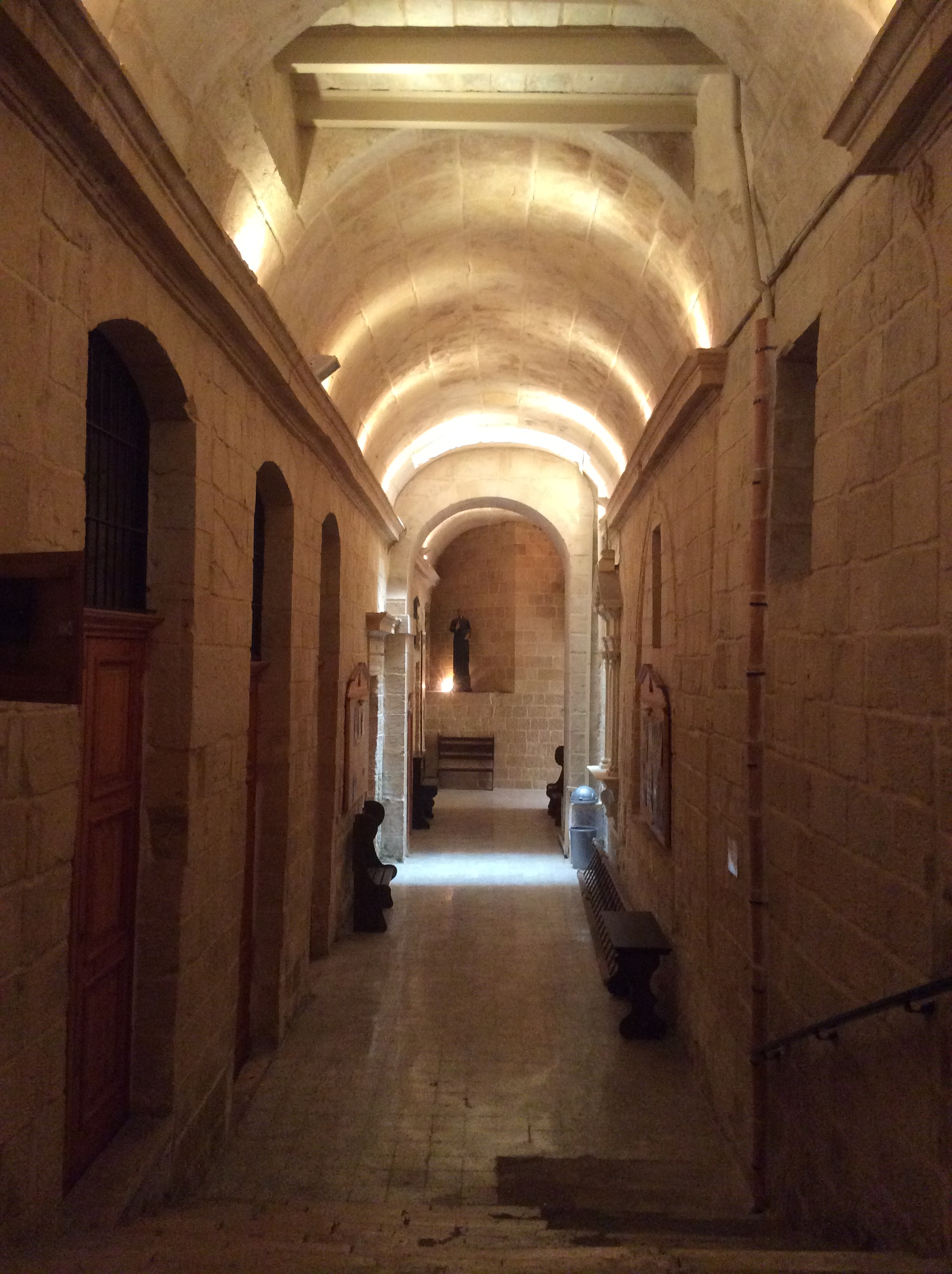 Ta Giezu Church